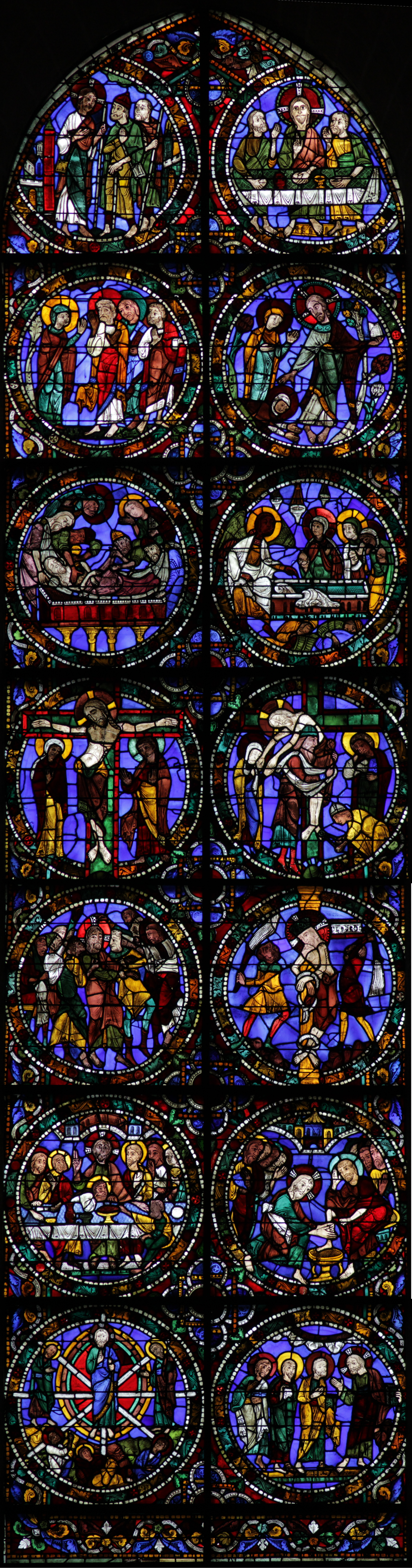 Christ passion and resurrection. Mosaic version of Chartres 51 -001.JPG to Chartres 51 -004.JPG, perspective corrected.